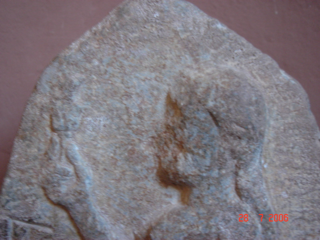 Stele with Kore, Archaeological Museum Sparta